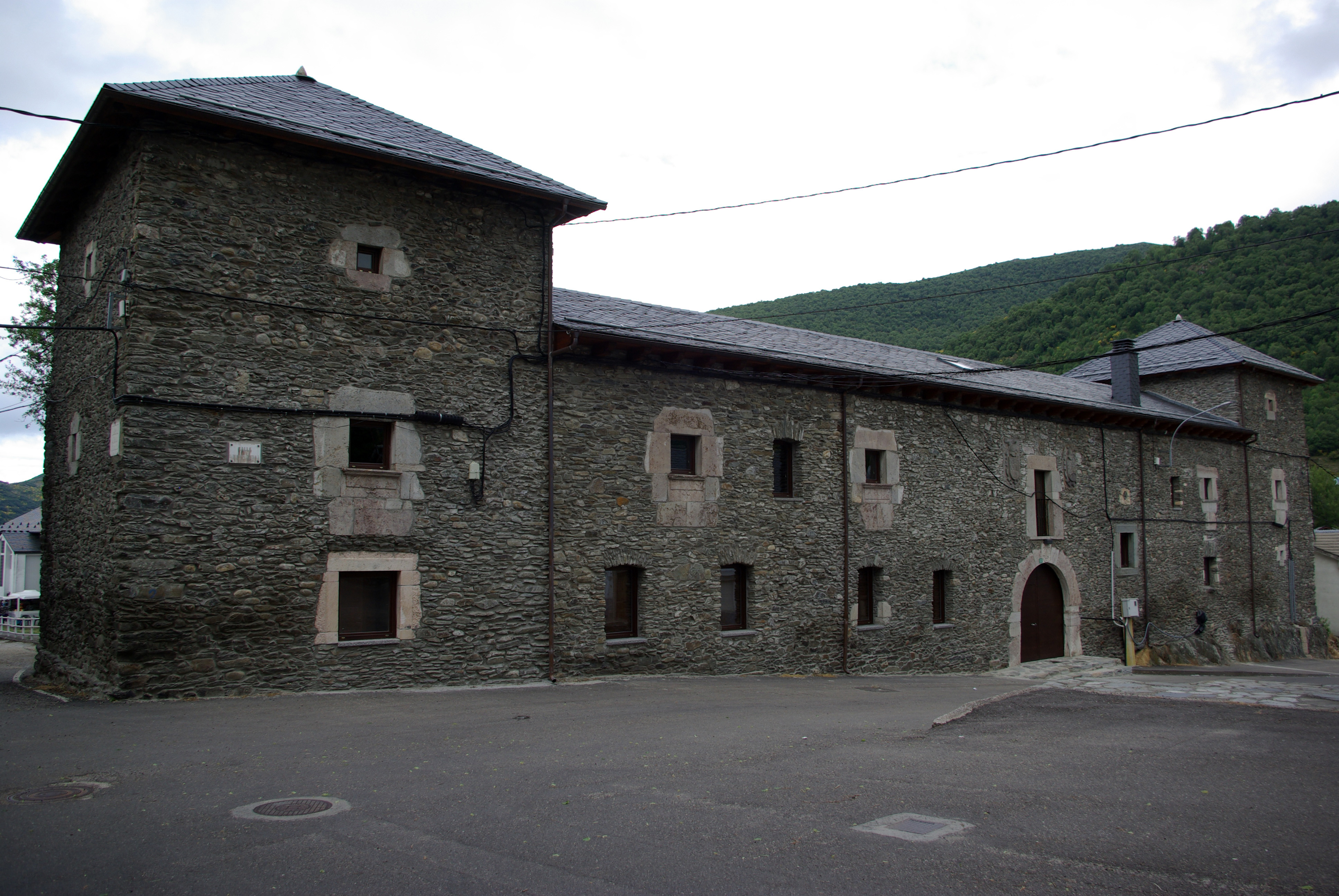 Escutcheon house of Álvarez Carballo in Murias de Paredes (León, Spain). Luna and Omaña valleys Man and the Biosphere Programme Interpretation Centre. Western view.